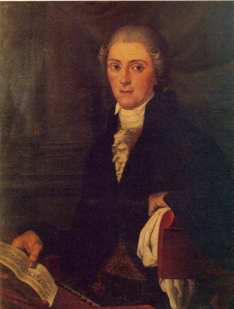 Pacchierotti in his fifties. fair use, non-copyright, image dates from c1790-1800